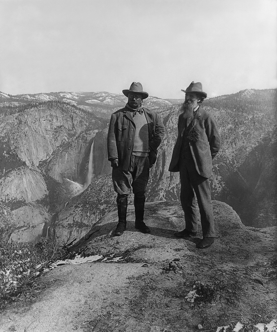 U.S. President Theodore Roosevelt (left) and nature preservationist John Muir, founder of the Sierra Club, on Glacier Point in Yosemite National Park. In the background: Upper and lower Yosemite Falls.